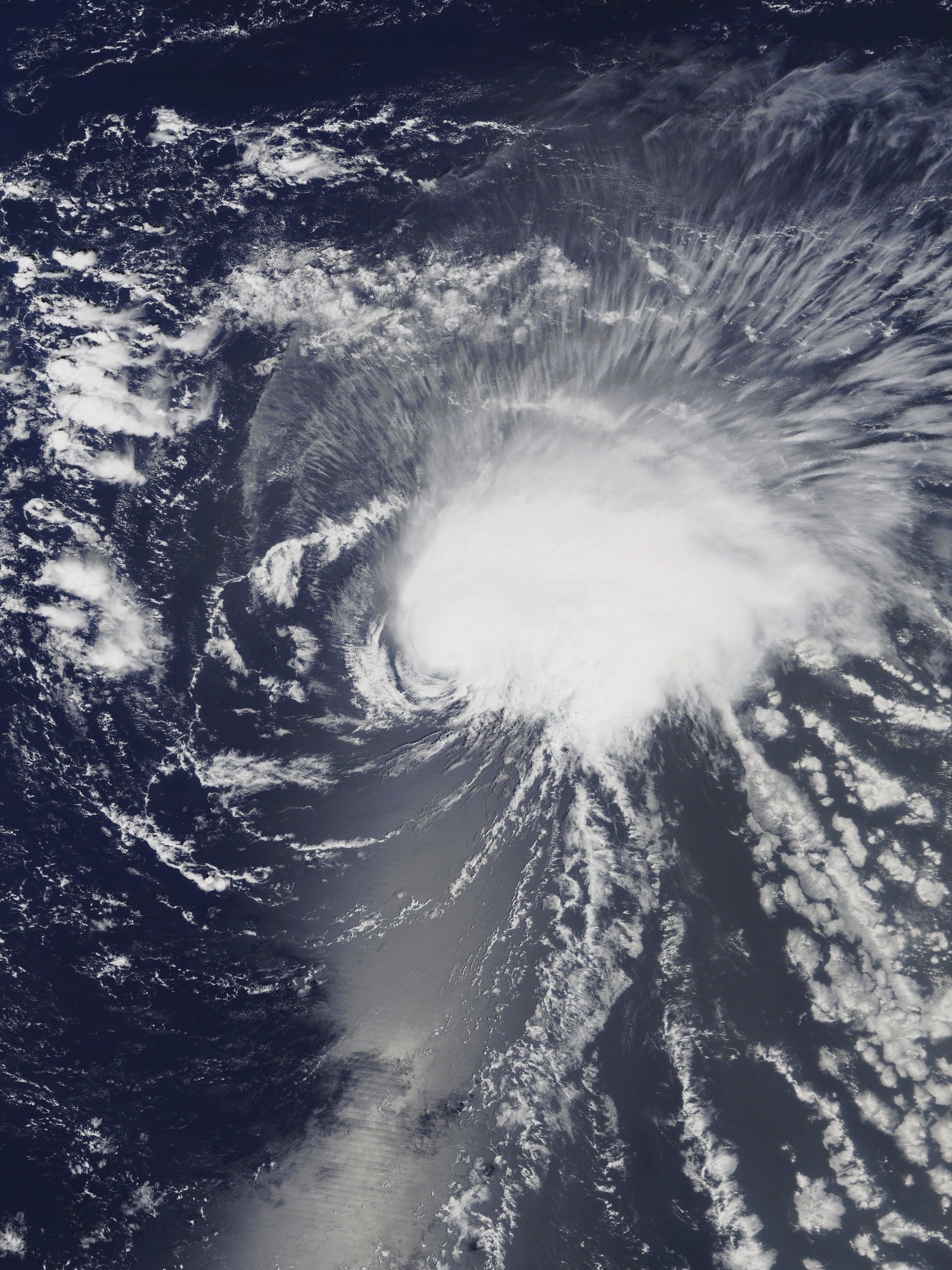 Hurricane Florence rapidly weakening in the Central Atlantic on September 6, 2018